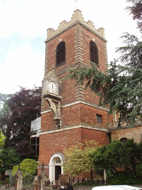 St Peter's Church in Colchester. The tower was built in 1758, the clock is Victorian. The church is near the top of North Hill.